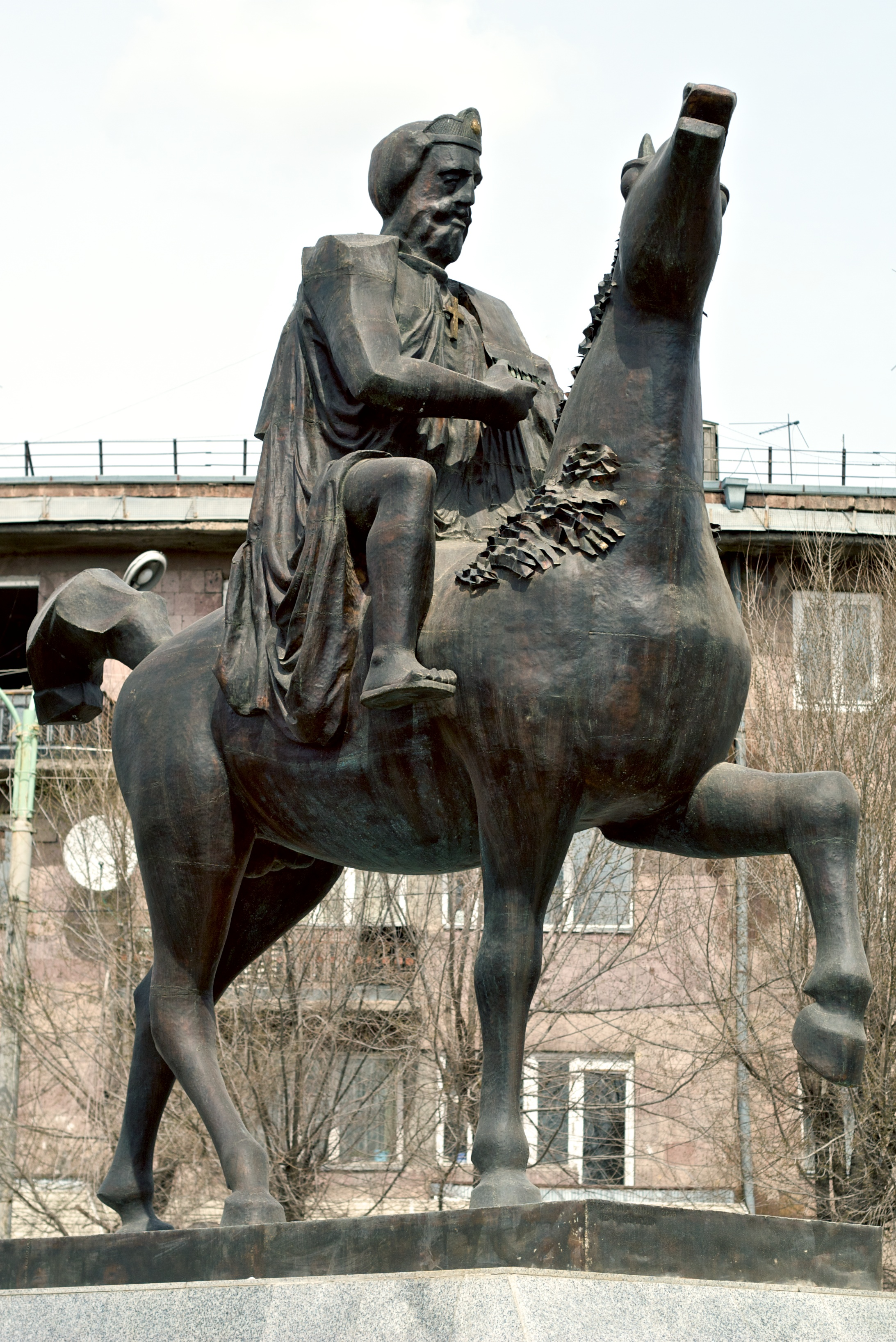 The statue of king Ashot III Voghormats, Gyumri, Armenia.